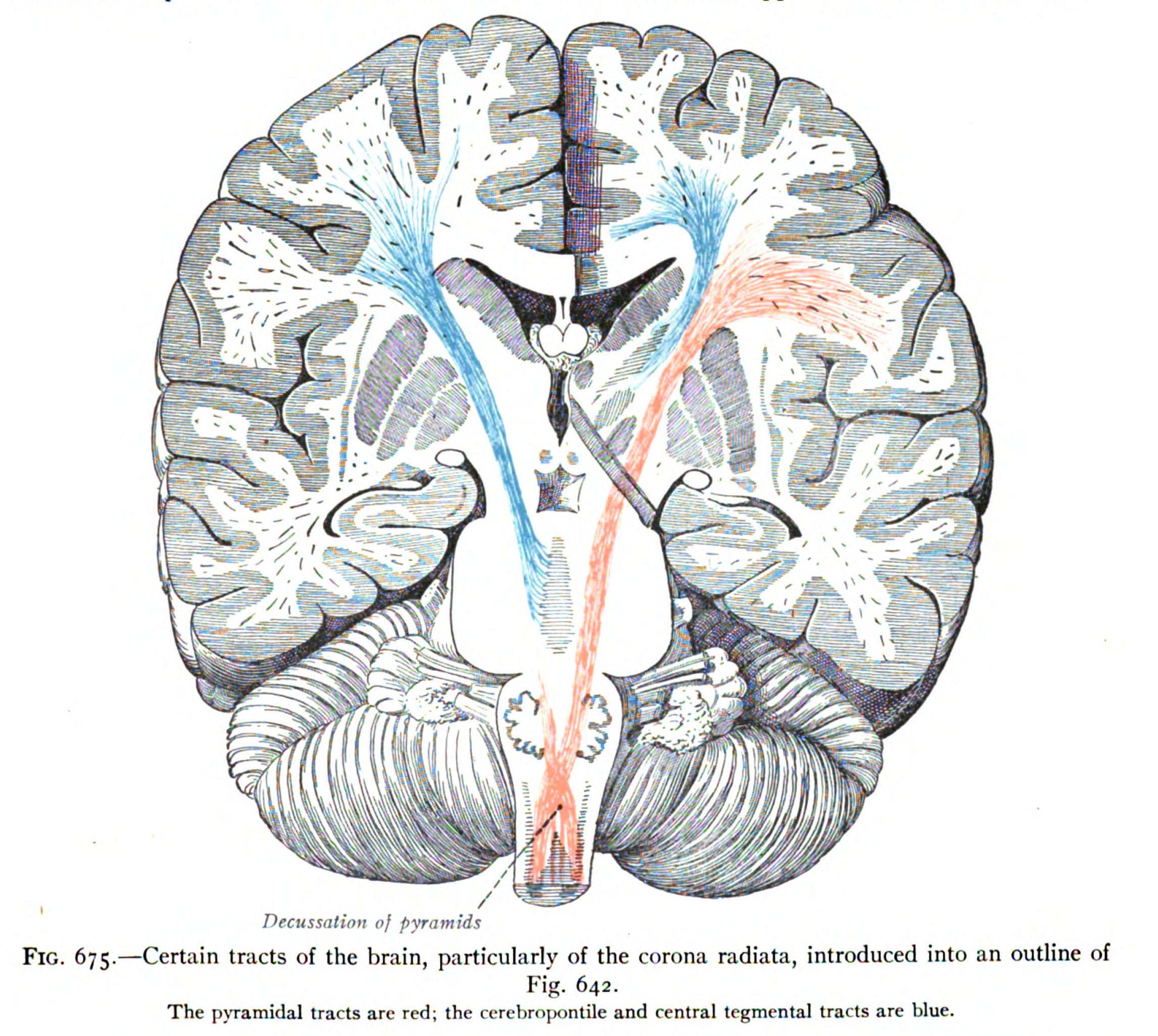 An anatomical illustration from Sobotta's Anatomy 1909 edition. Certain tracts of the brain, particularly of the corona radiata, introduced into an outline of Fig. 642. The pyramidal tracts are red; the cerebropontile and central tegmental tracts are blue.